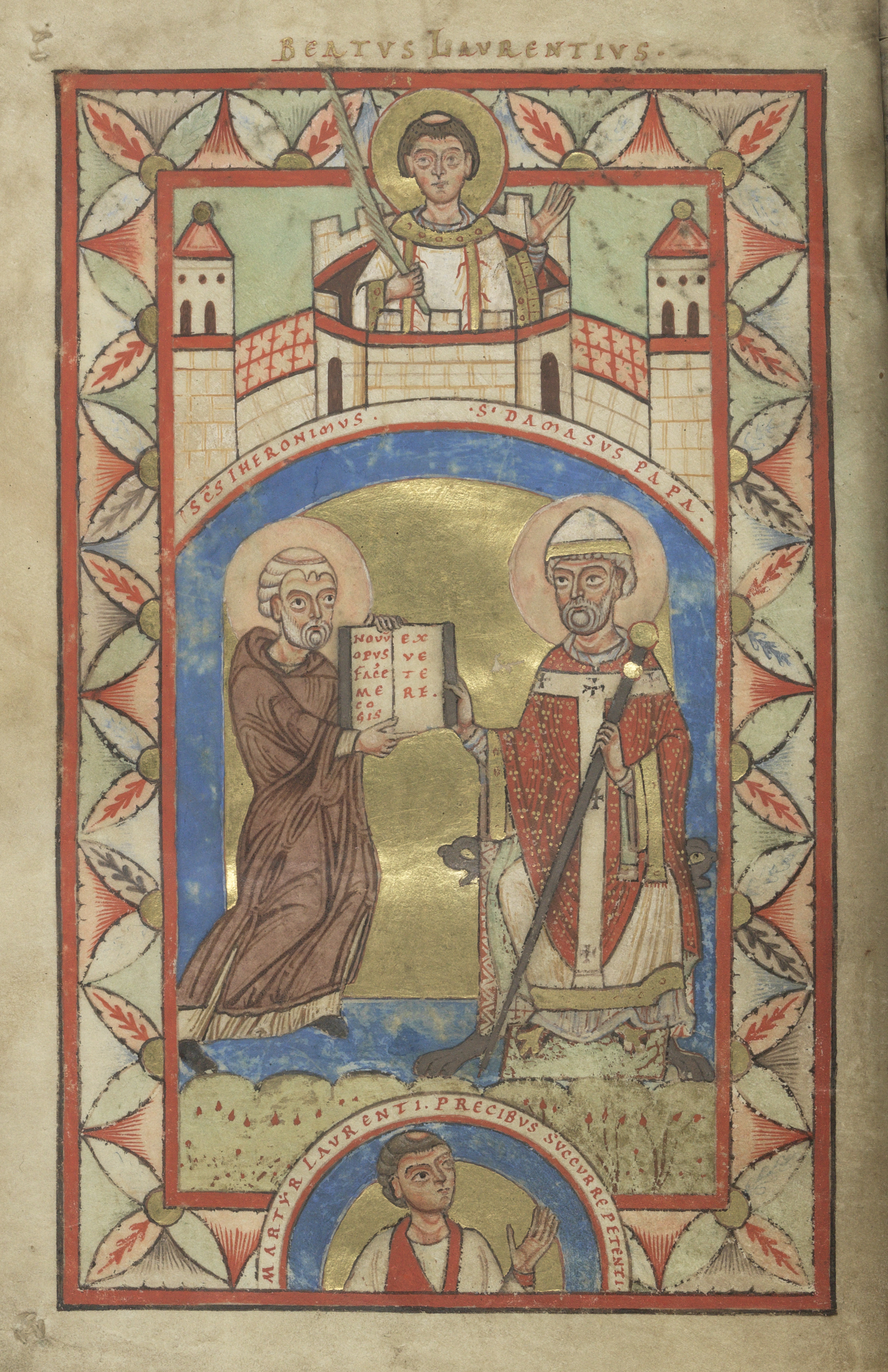 Illumination (folio 1v) from a gospel book (evangelarium) made around 1140 at the Benedictine monastery in Helmarshausen for the Cathedral of Lund.